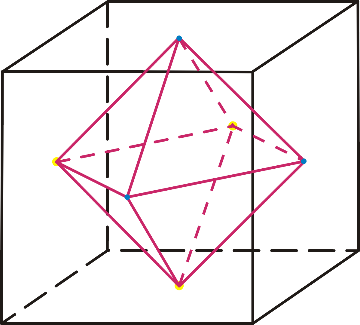 Octahedron dual to Hexahedron.